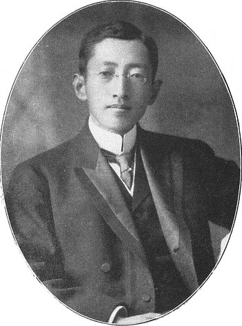 Masaaki Hoshina